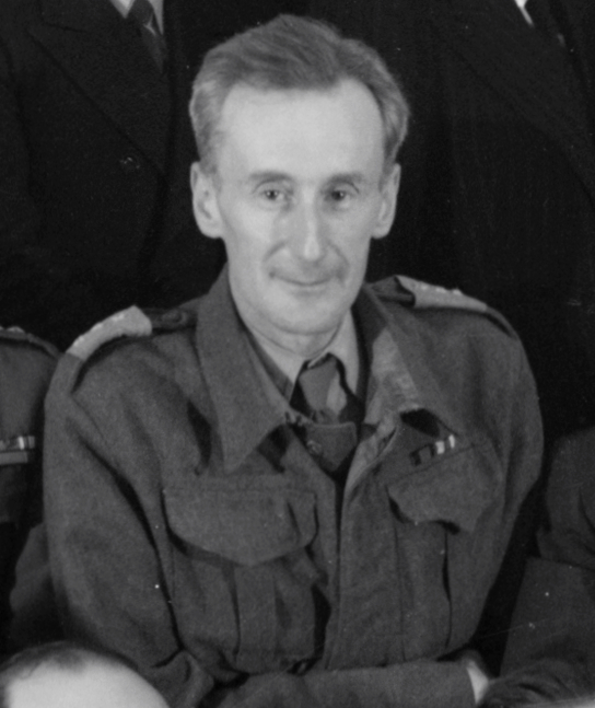 Józef Czapski Original title: Polish Information Centre groups, night, taken January 21, '43